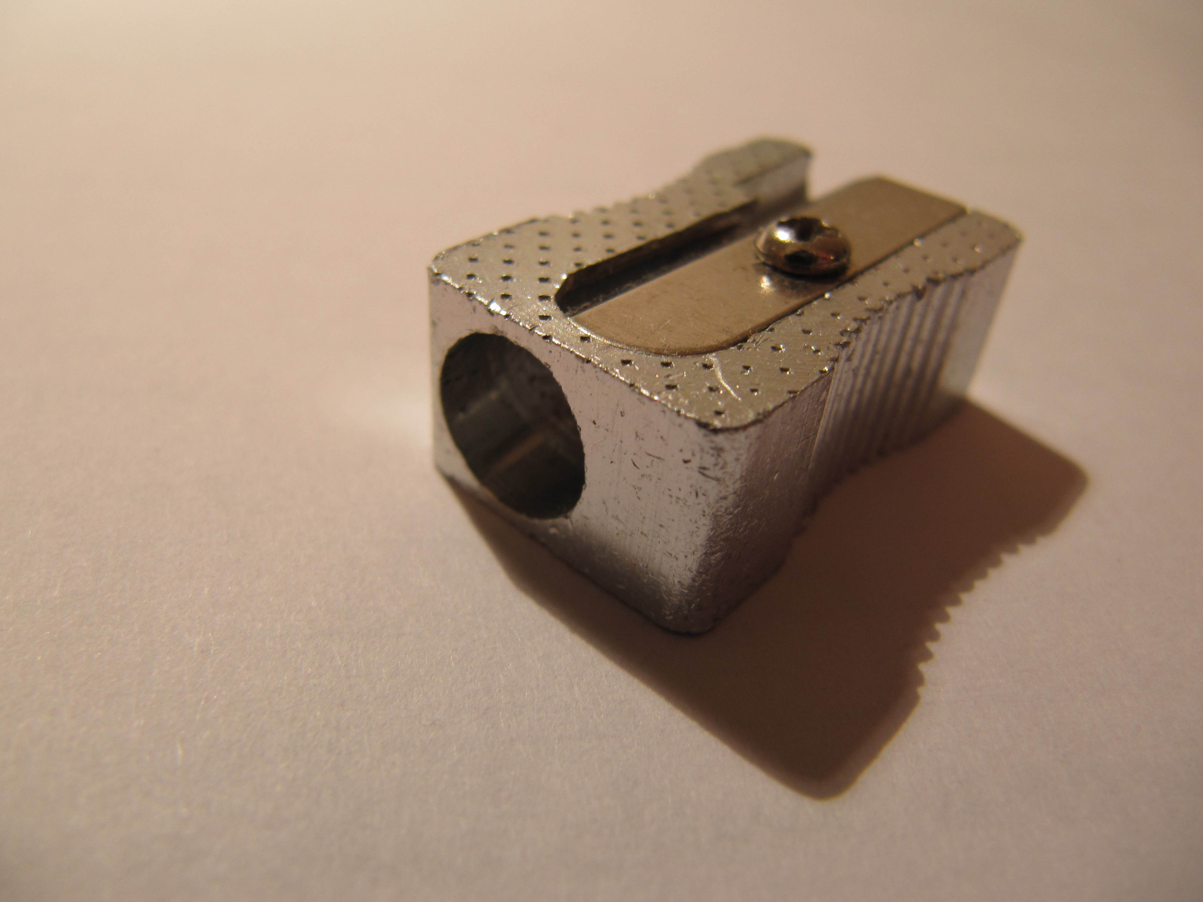 Manual prism sharpener.